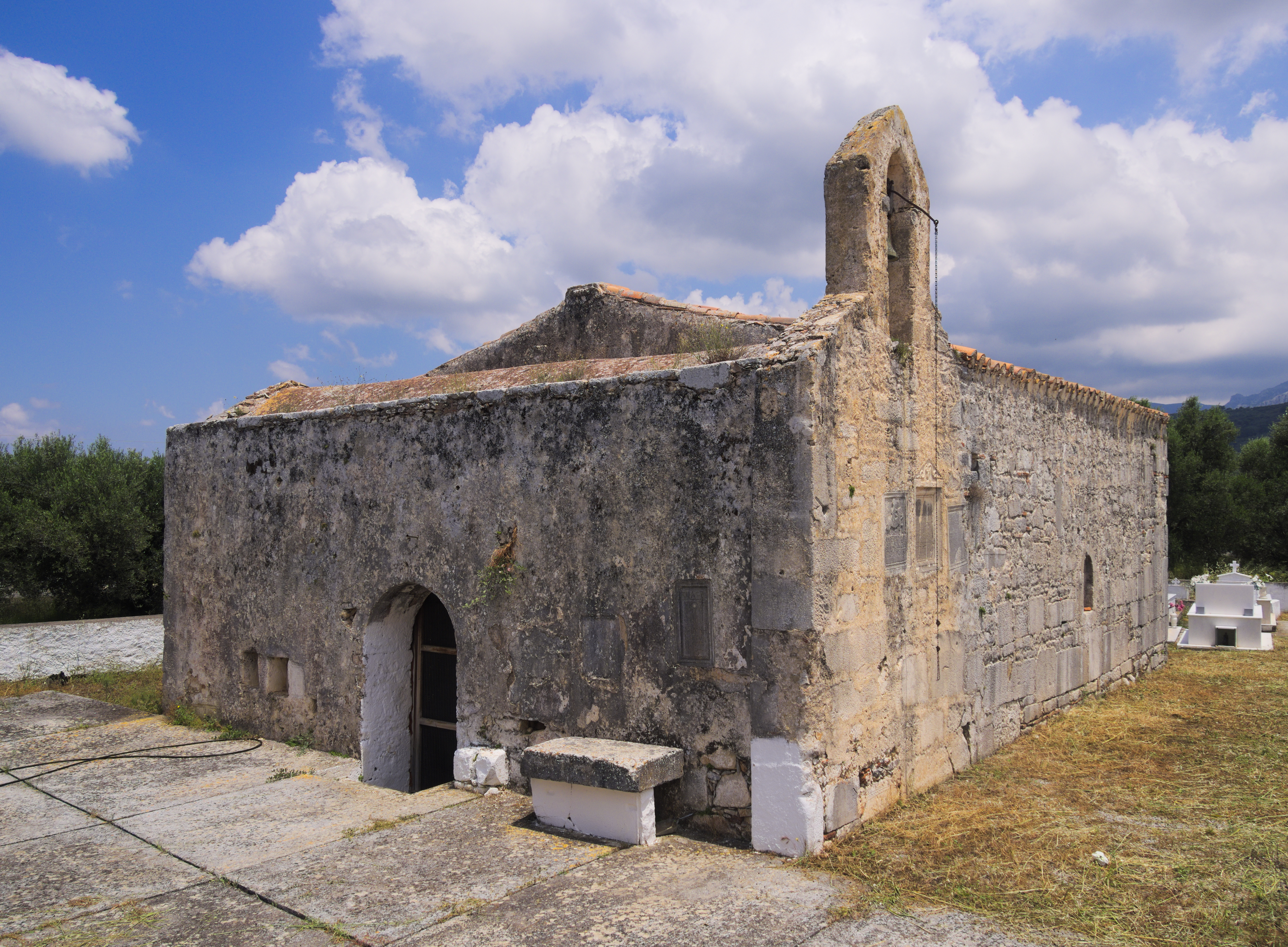 The 12-13th century church dedicated to Saint John at Liliano cemetary, Crete.